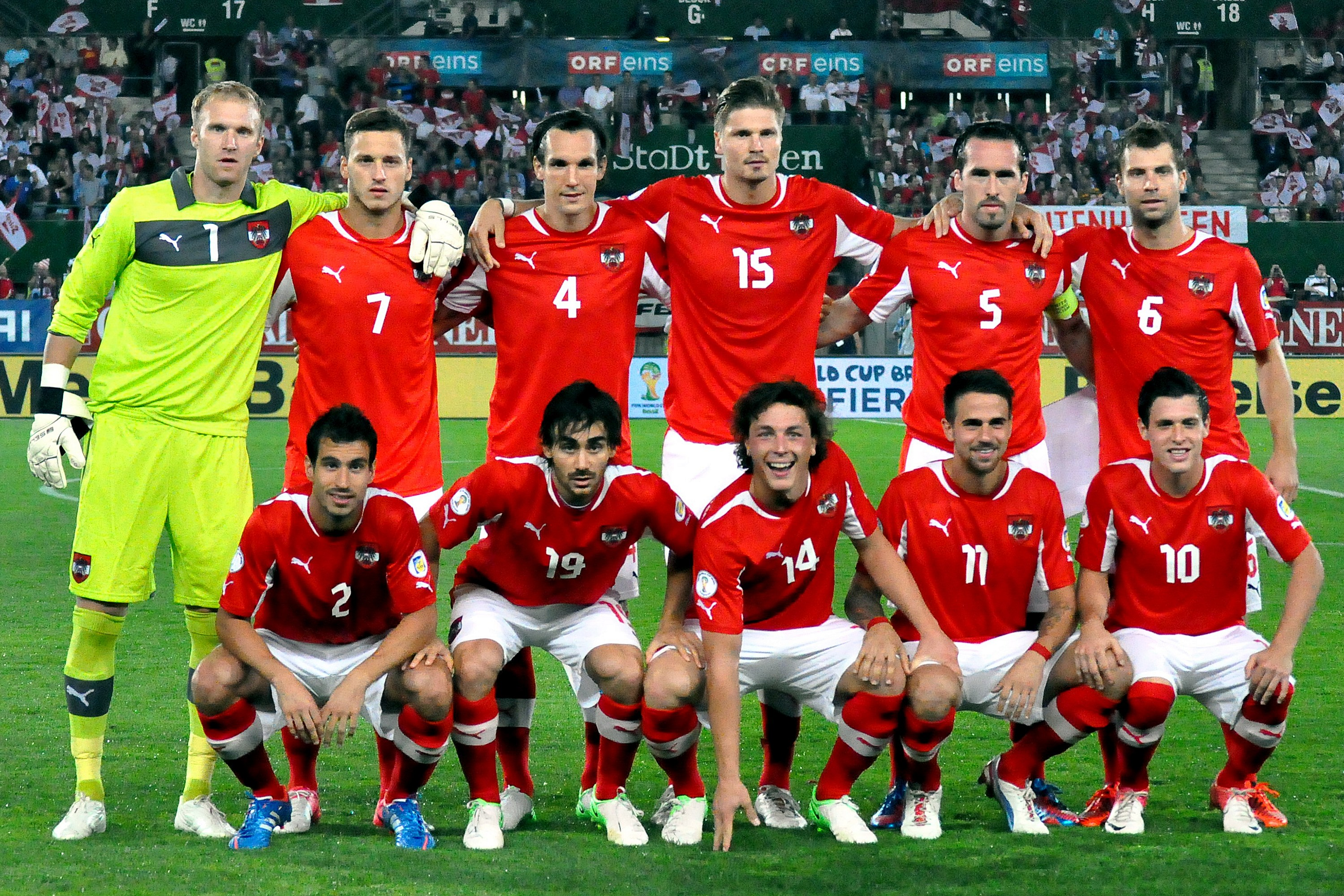 2014 FIFA World Cup qualification (UEFA), Group C: Austria national football team at 11. September 2012 before the match against the german national football team (1:2) in the Ernst-Happel-Stadion in Vienna – The photo shows from left to right en: (en:), en: (en:), en: (en:), en: (en:), en: (en:), en: (en:), en: (en:), en: (en:), en: (en:), en: (en:), en: (en:), .